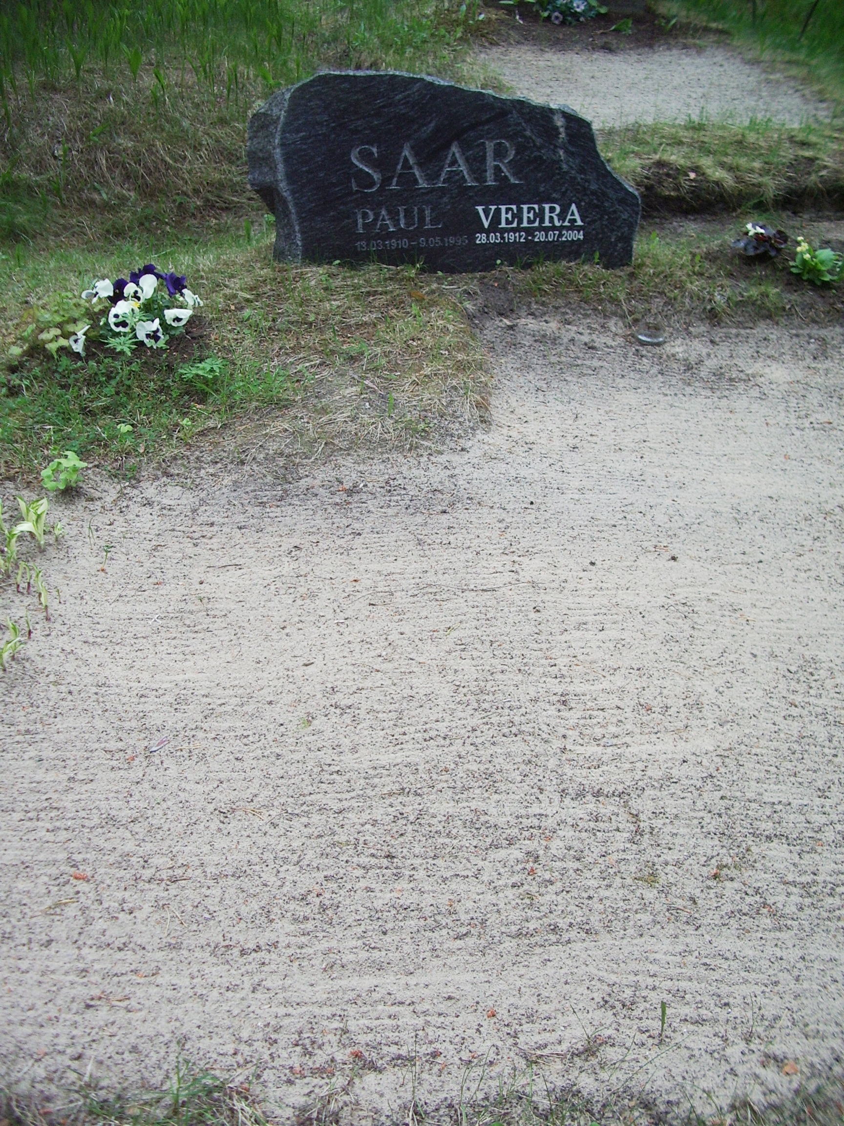 A tomb of Veera Saar